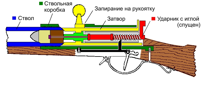 Internal structural drawing of Dreyse M1841.